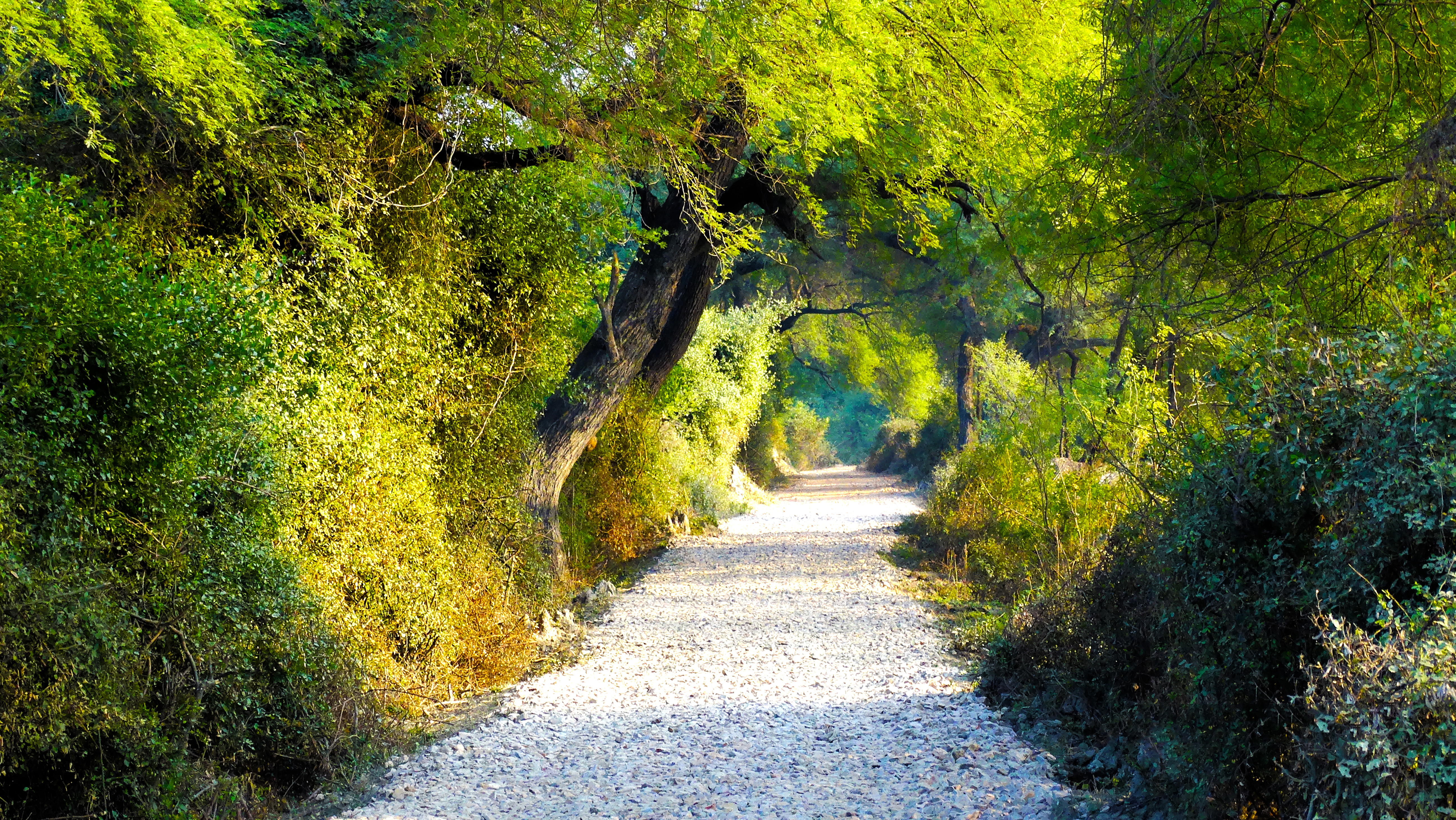 A view of the Bharatpur bird sanctuary